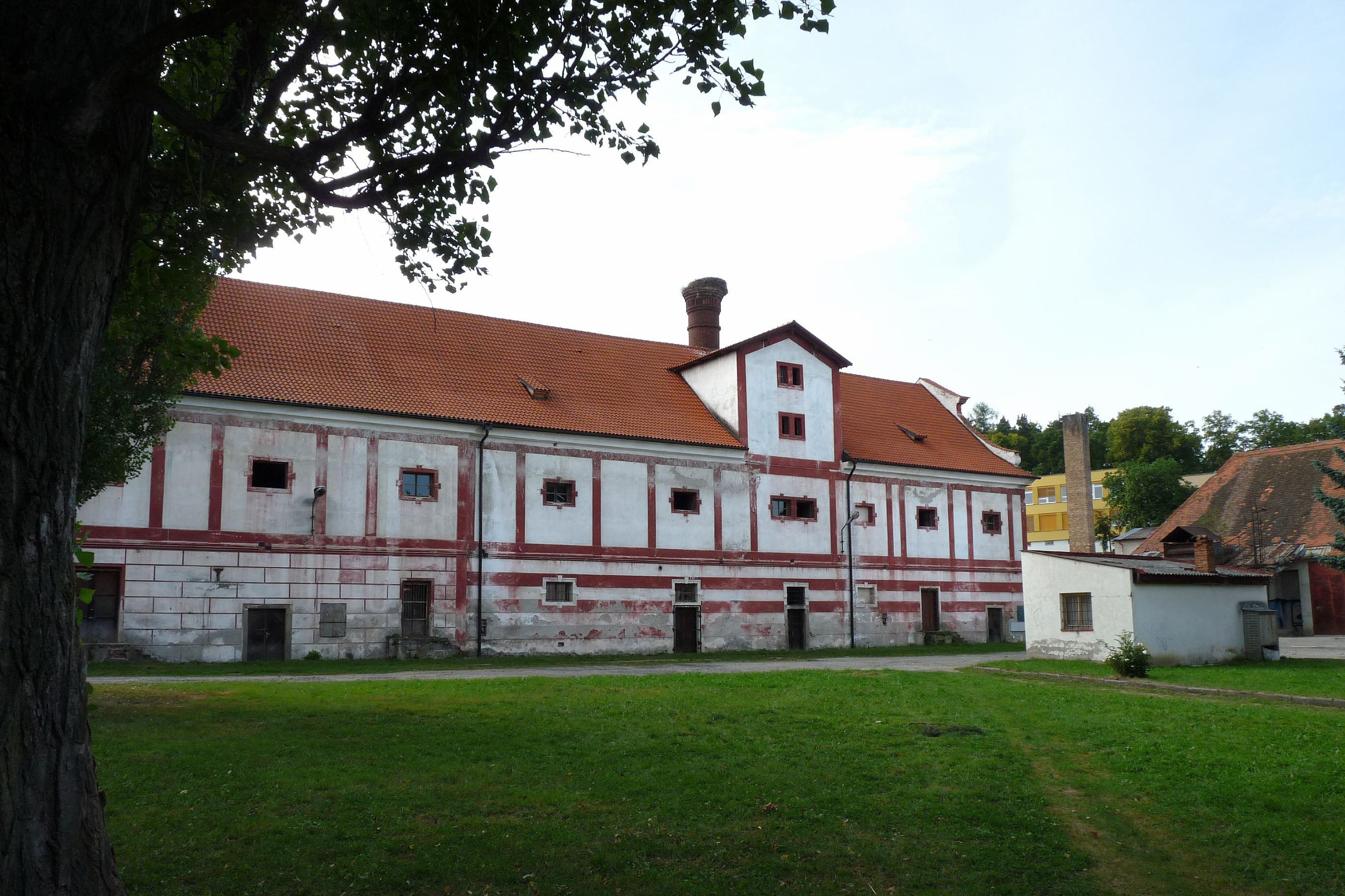 Former brewery in the town of Vlachovo Březí, Prachatice District, South Bohemian Region, Czech Republic.